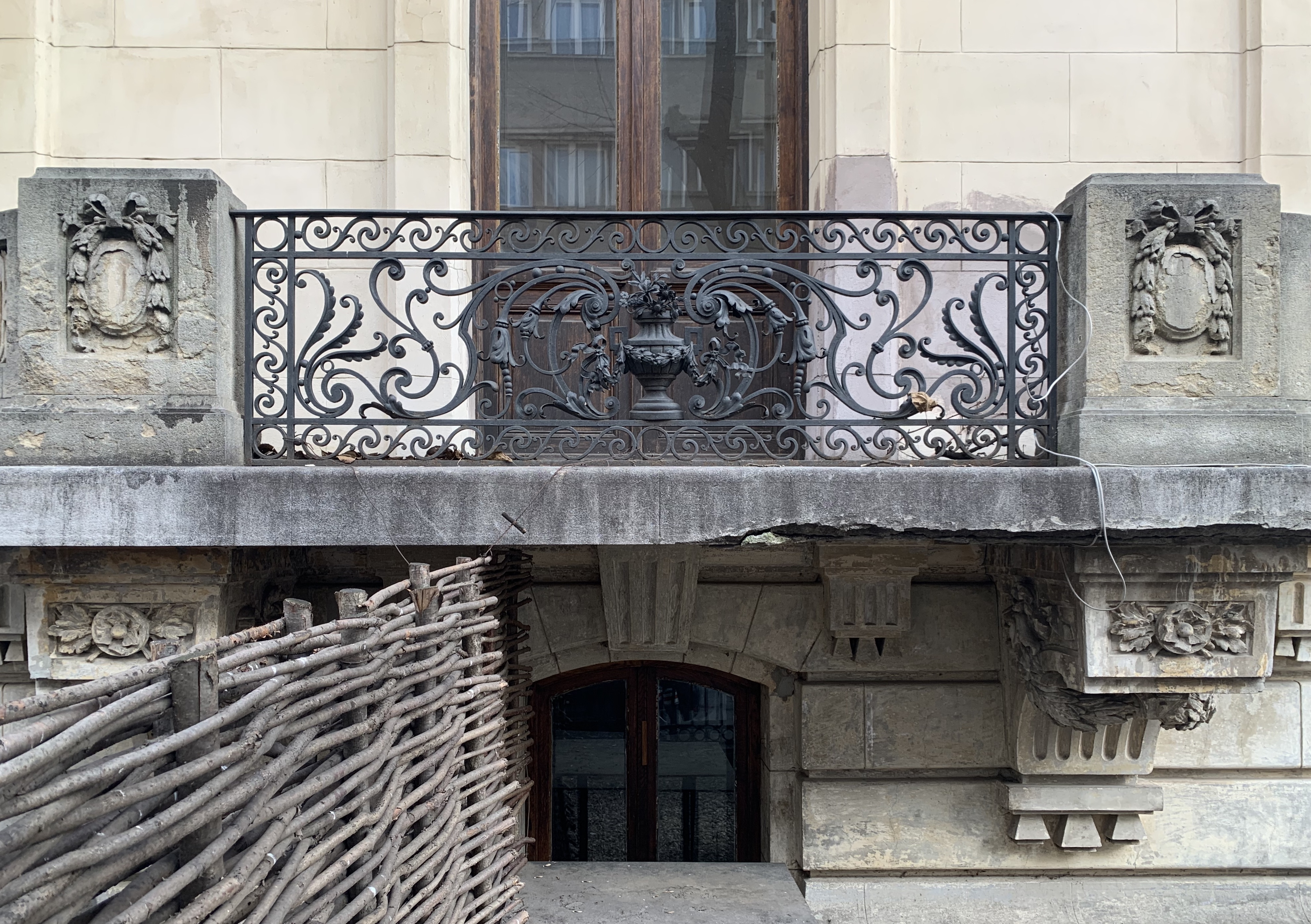 15, Strada Arthur Verona, Bucharest (Romania)